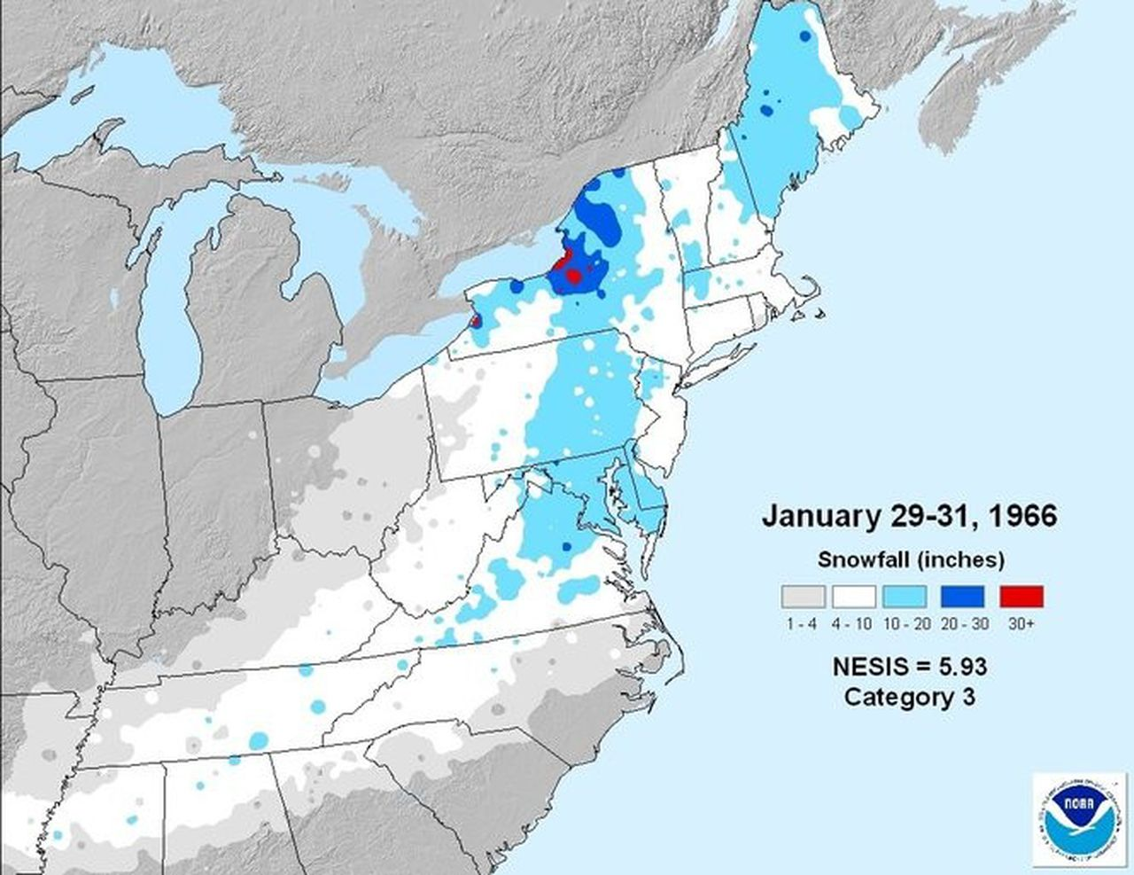 Snowfall totals with the blizzard of January 1966.